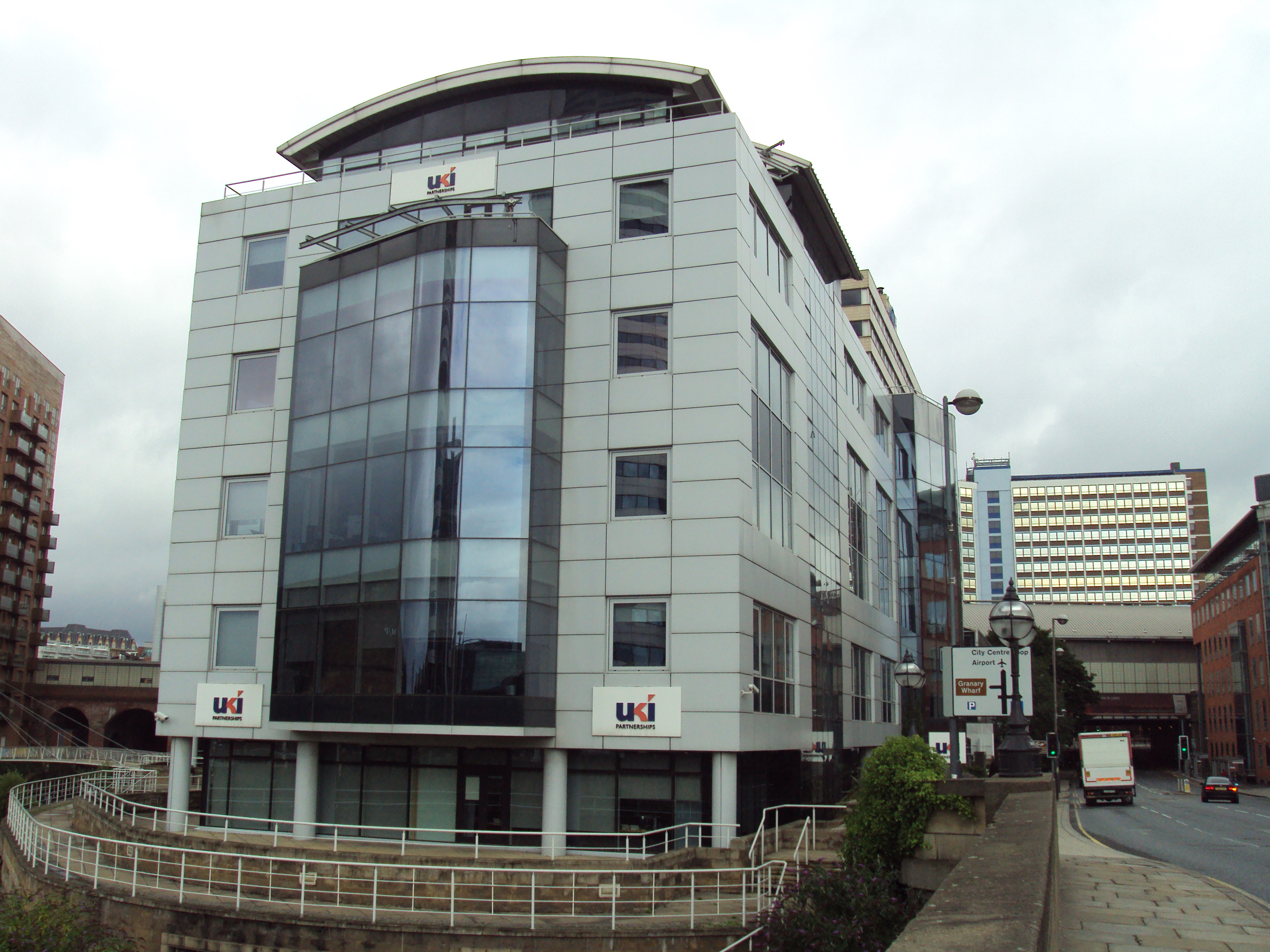 UKI Partnerships offices, Neville Street, Leeds.